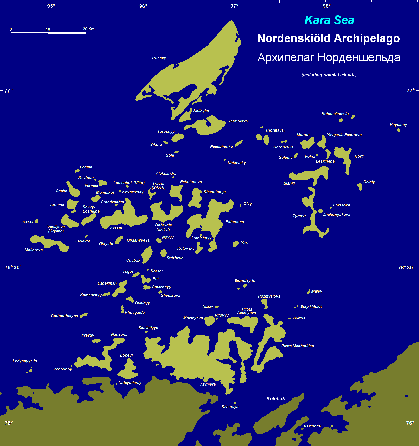 Improved color map of an island group.